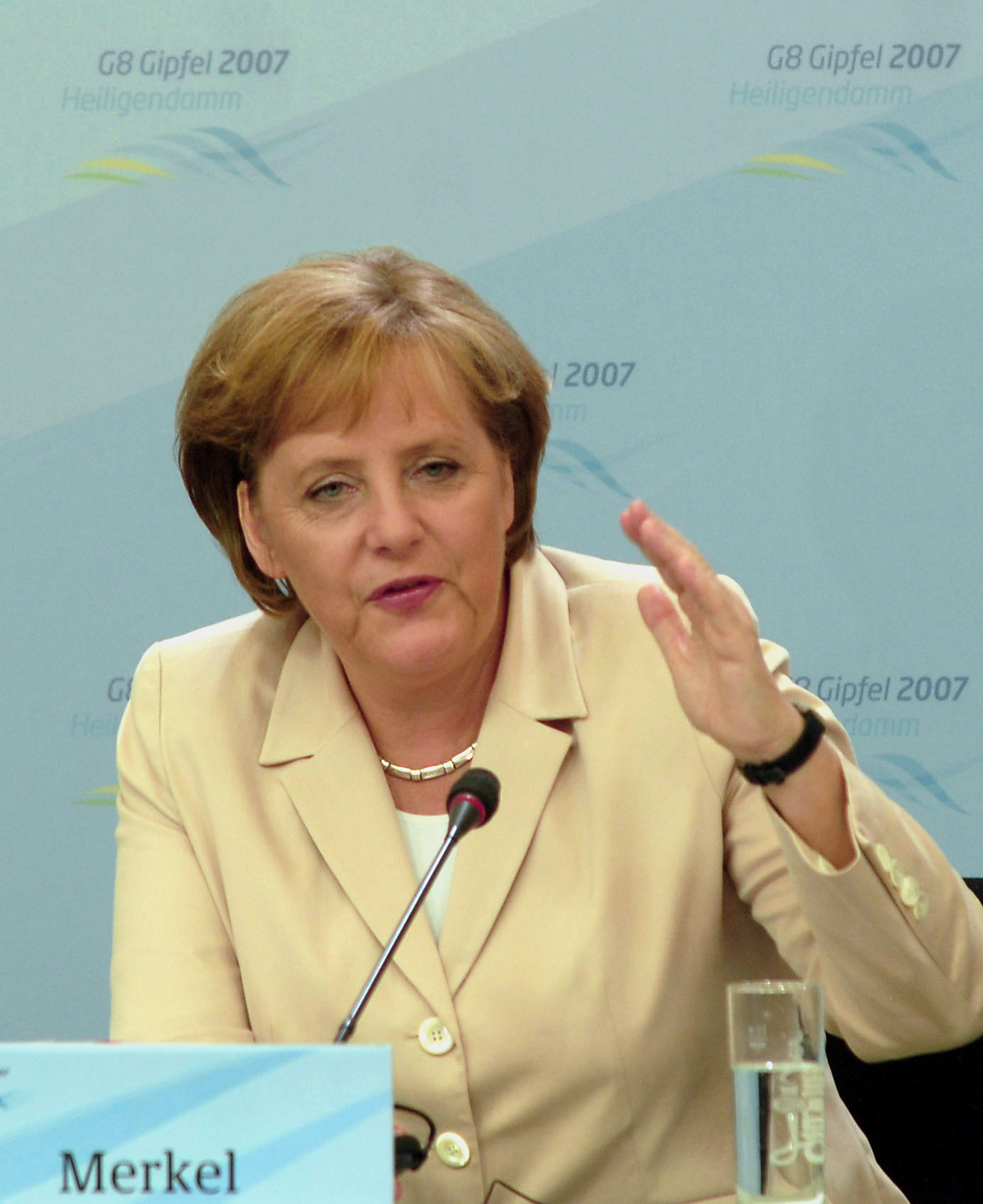 Angela Merkel at G8 conference in Heilgendamm, Germany